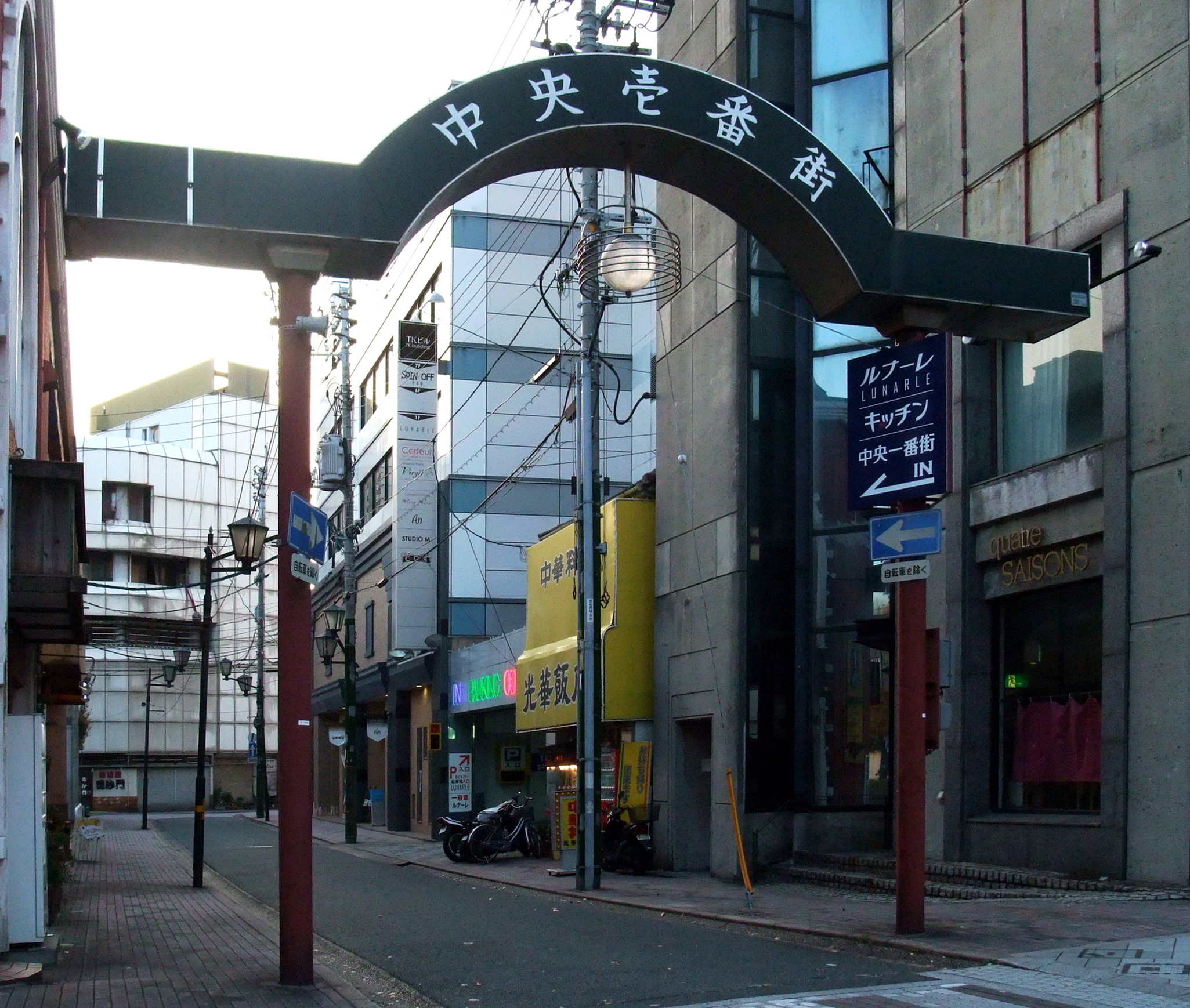 Chuo Ichibangai in Ube City, Yamaguchi Prefecture, Japan. Taken on 11 July 2010.